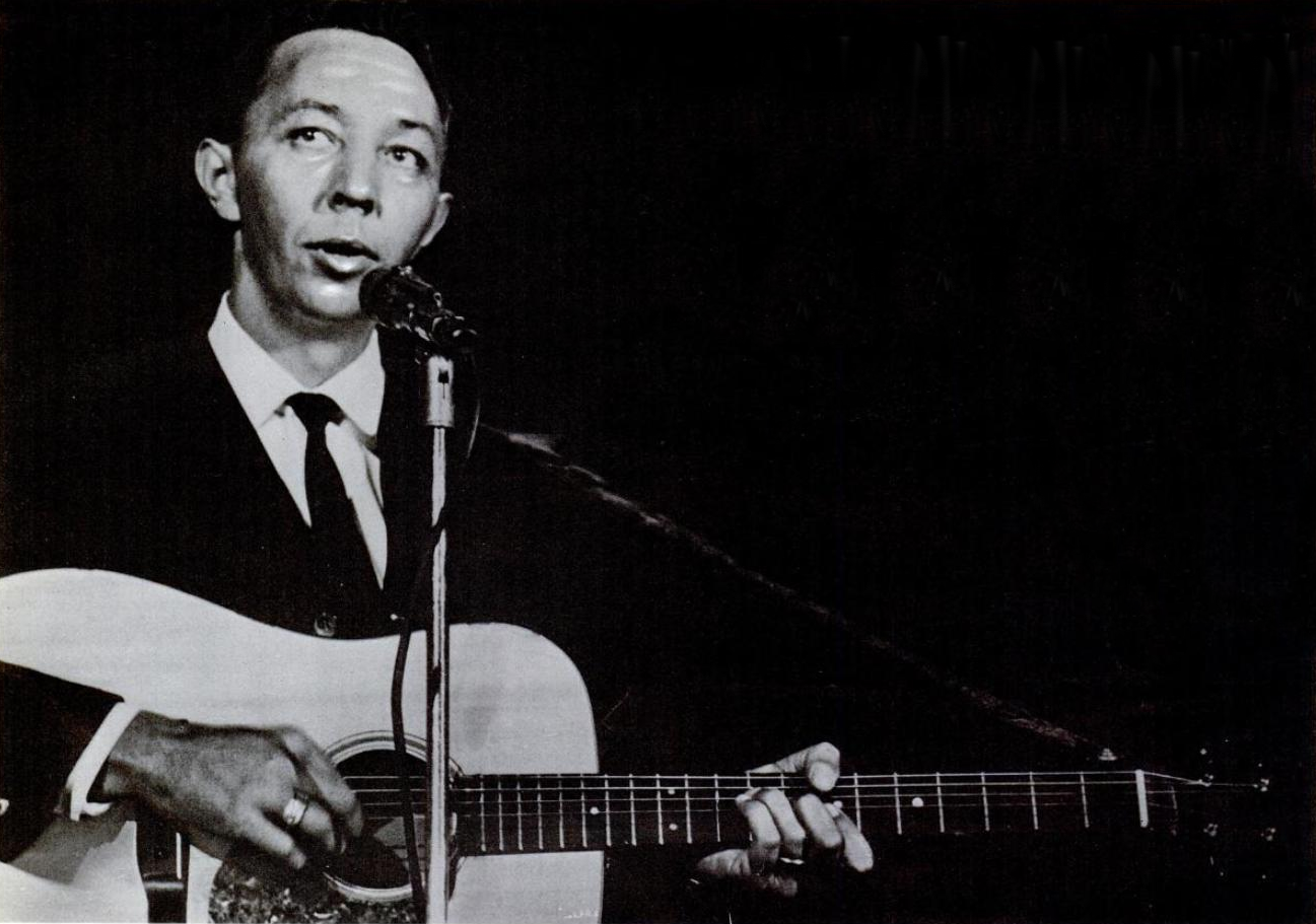 Trade ad for Carl Belew's single "Crystal Chandelier".To better adapt it to his respective Wikipedia article, the ad was cropped and cleaned in a graphics editing program. The original can be viewed at the source below.